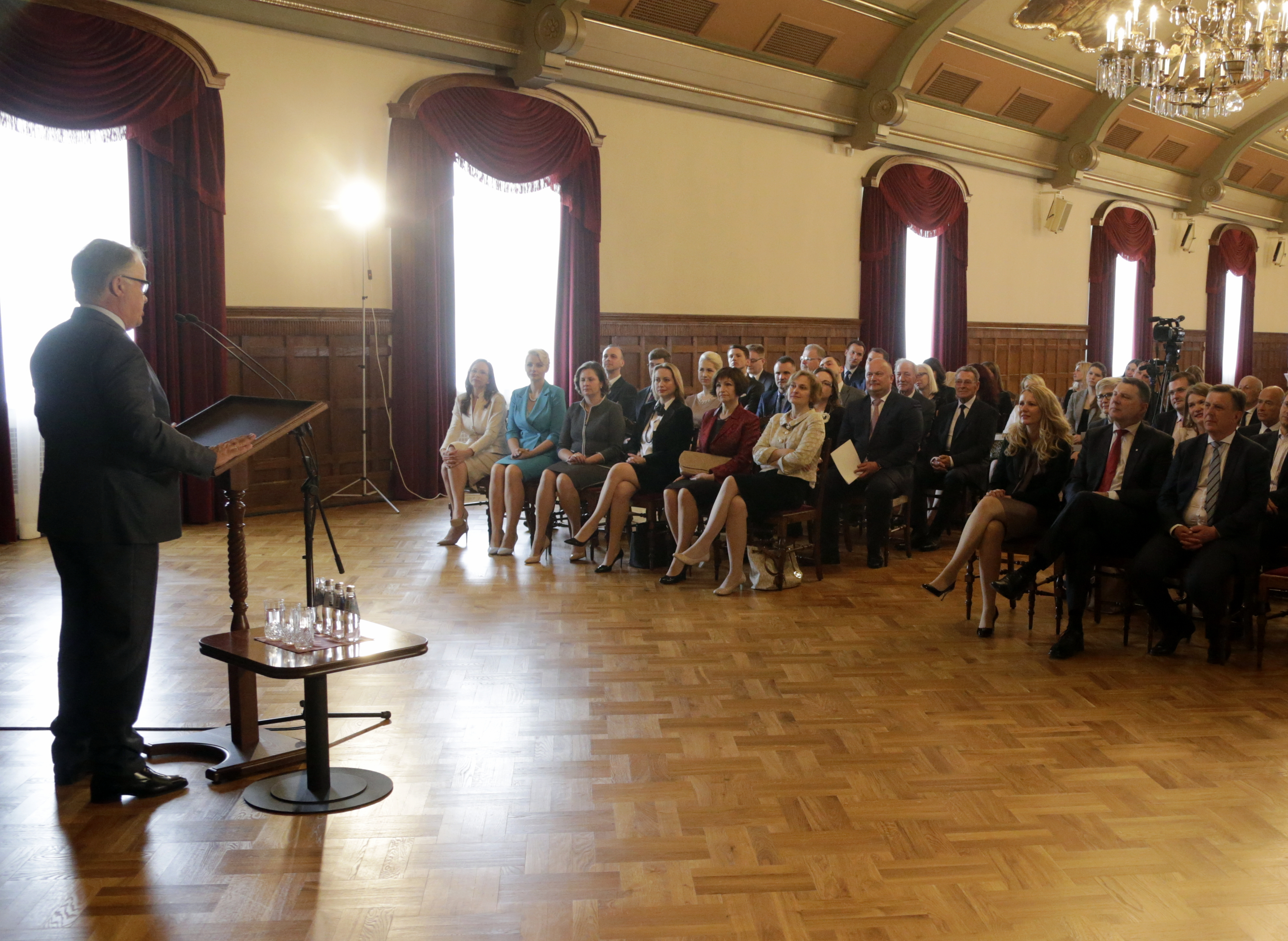 Satversmes komentāru atklāšana 2017.gada 31.maijā